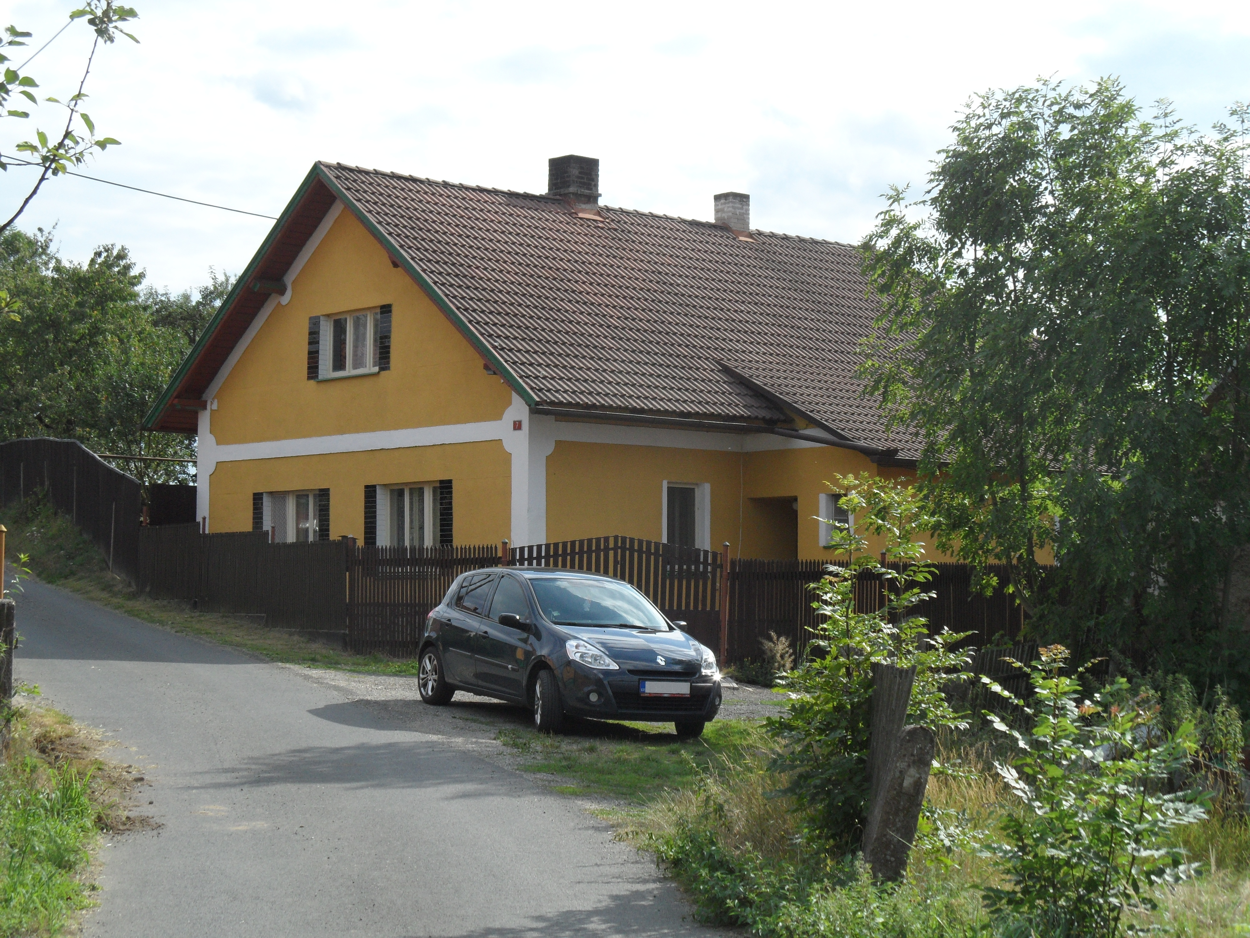 Laziště (Pertoltice) A. Wooden House, Kutná Hora District, the Czech Republic.